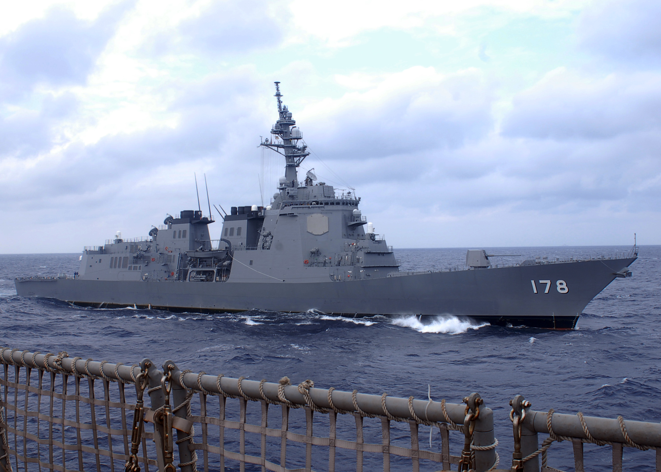 Japan Maritime Self Defense Force (JMSDF) ship JS Ashigara (DDG-178) steams alongside amphibious dock landing ship USS Tortuga (LSD-46) during visit, board, search and seizure training Nov. 16, 2009, in the Philippine Sea. Tortuga is part of the USS Essex (LHD 2) Expeditionary Strike Group, which is participating in Annual Exercise 21G, a bilateral exercise conducted by combined U.S. forces and the Japan Maritime Self Defense Force. (U.S. Navy photo by Mass Communication Specialist 1st Class Geronimo Aquino/Released)